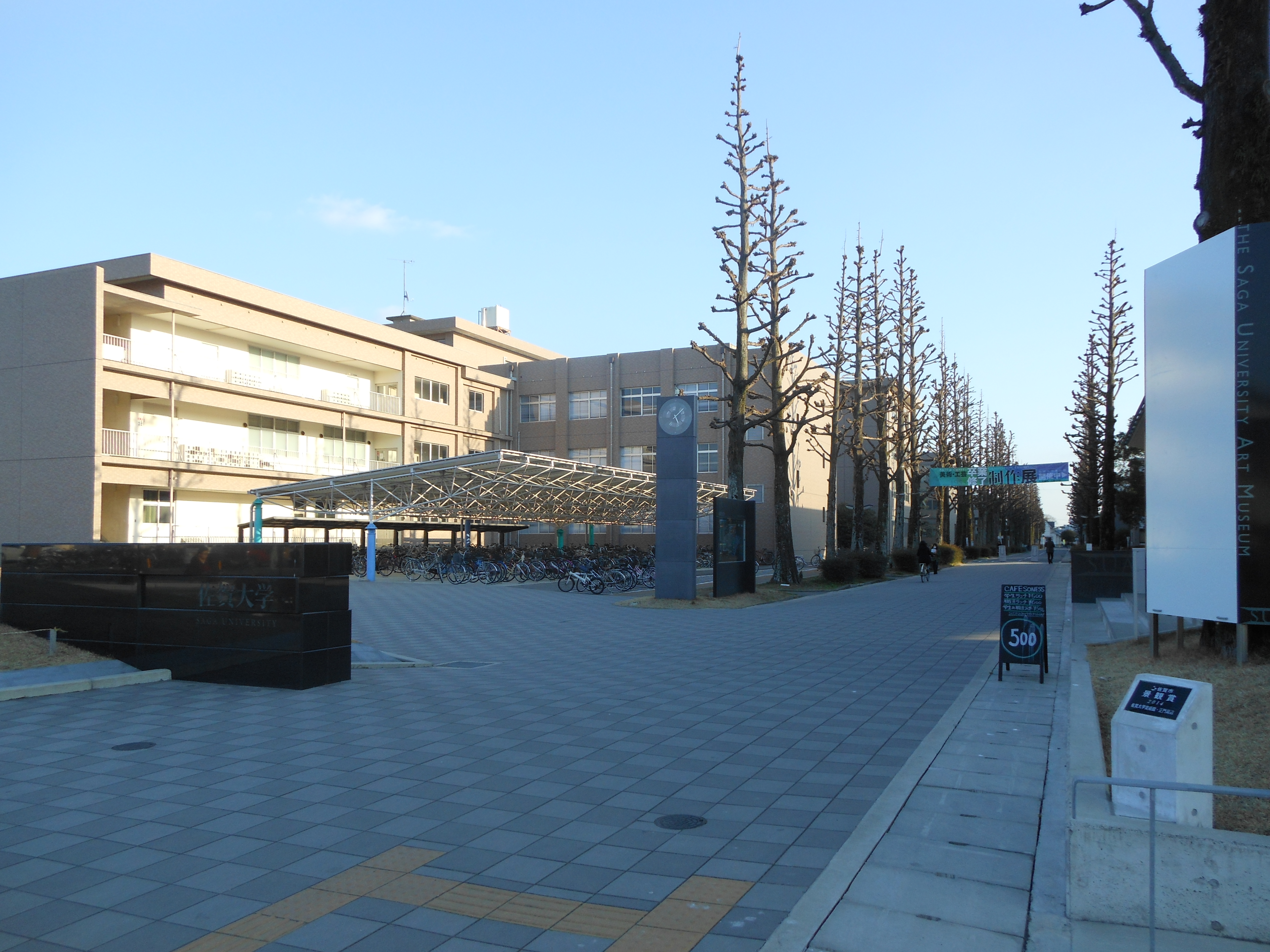 A front gate of Saga University Honjō Campus.